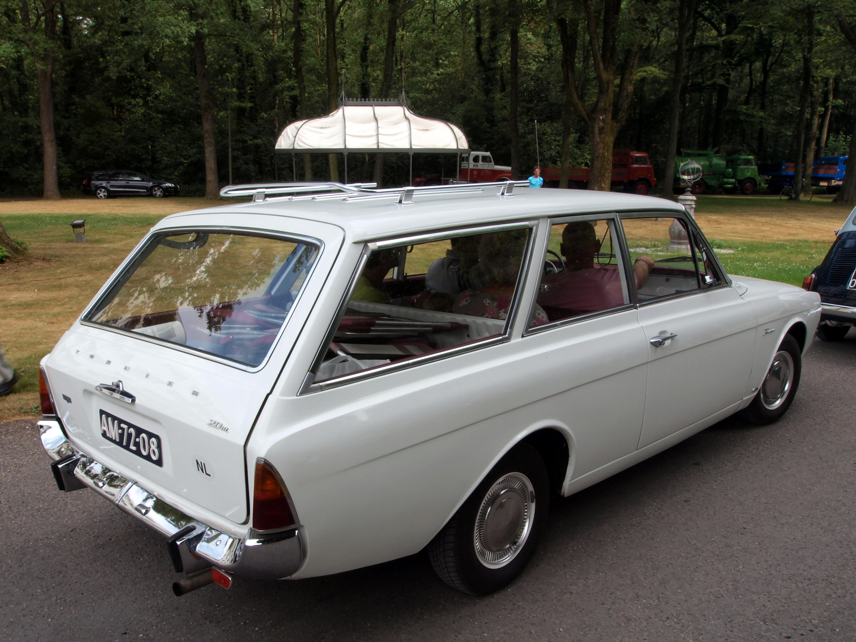 Ford Taunus 20M (1965)